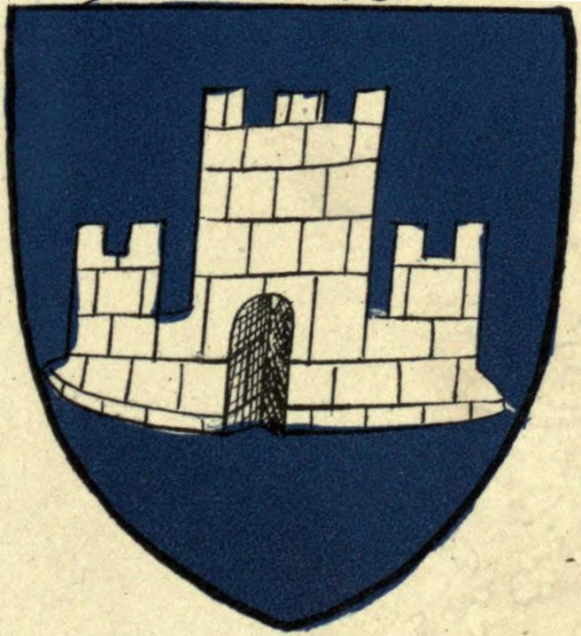 The arms of "Le sire de bes" [MacLeod of Dunvegan] which appear in the Armorial de Berry.